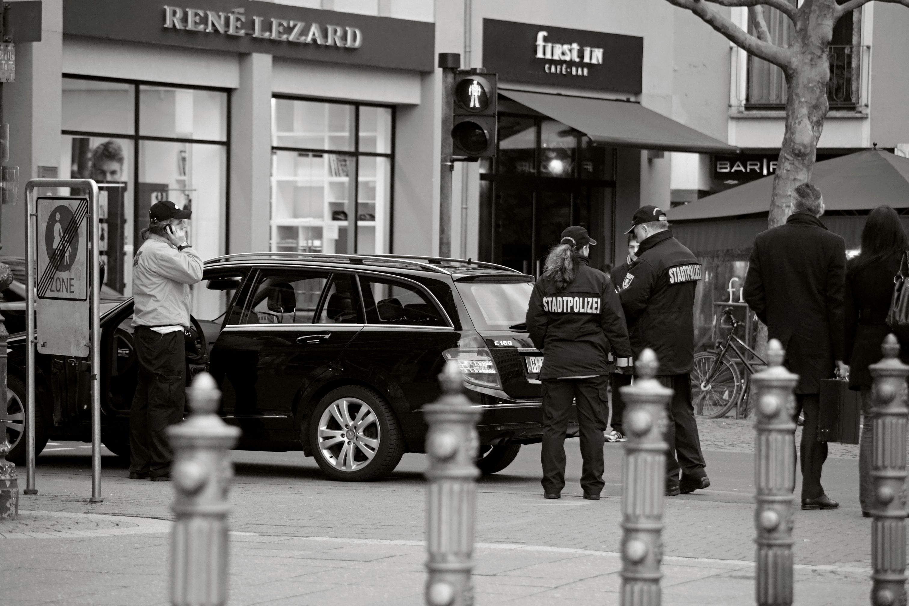 Two officers of the Stadtpolizei Frankfurt issue a ticket while controlling the stationary traffic